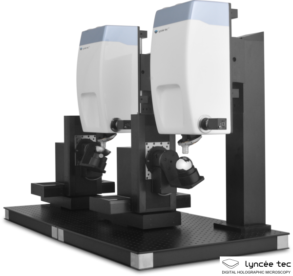 Digital Holographic Microscopy for measuring hip prosthesis roughness